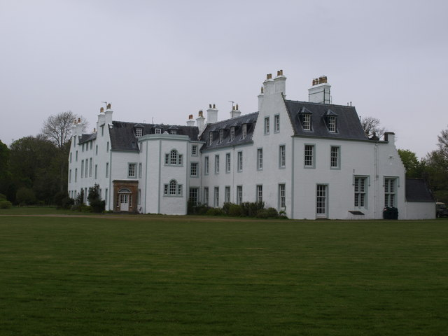 Islay House